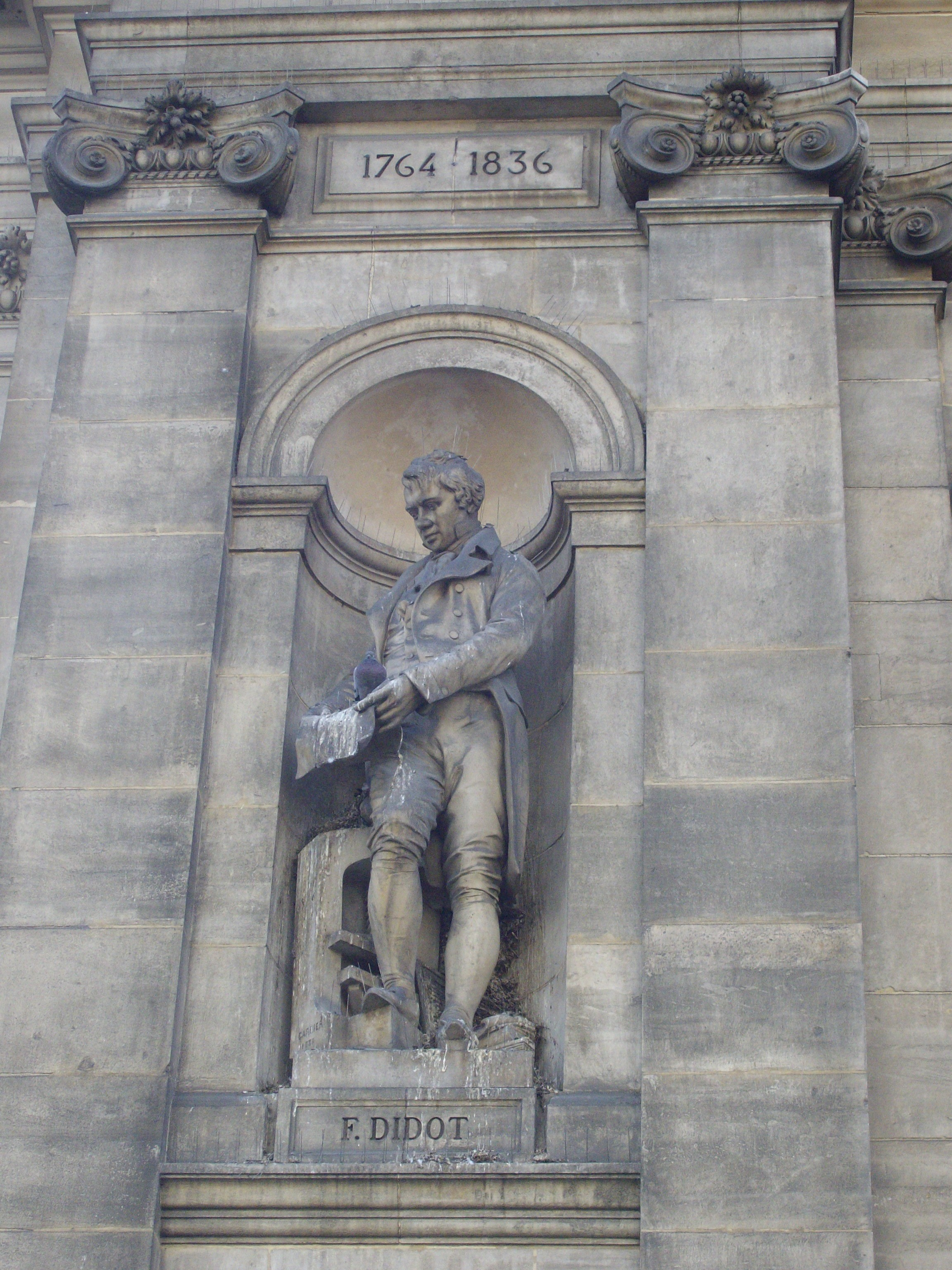 Statues of the City Hall in Paris, France